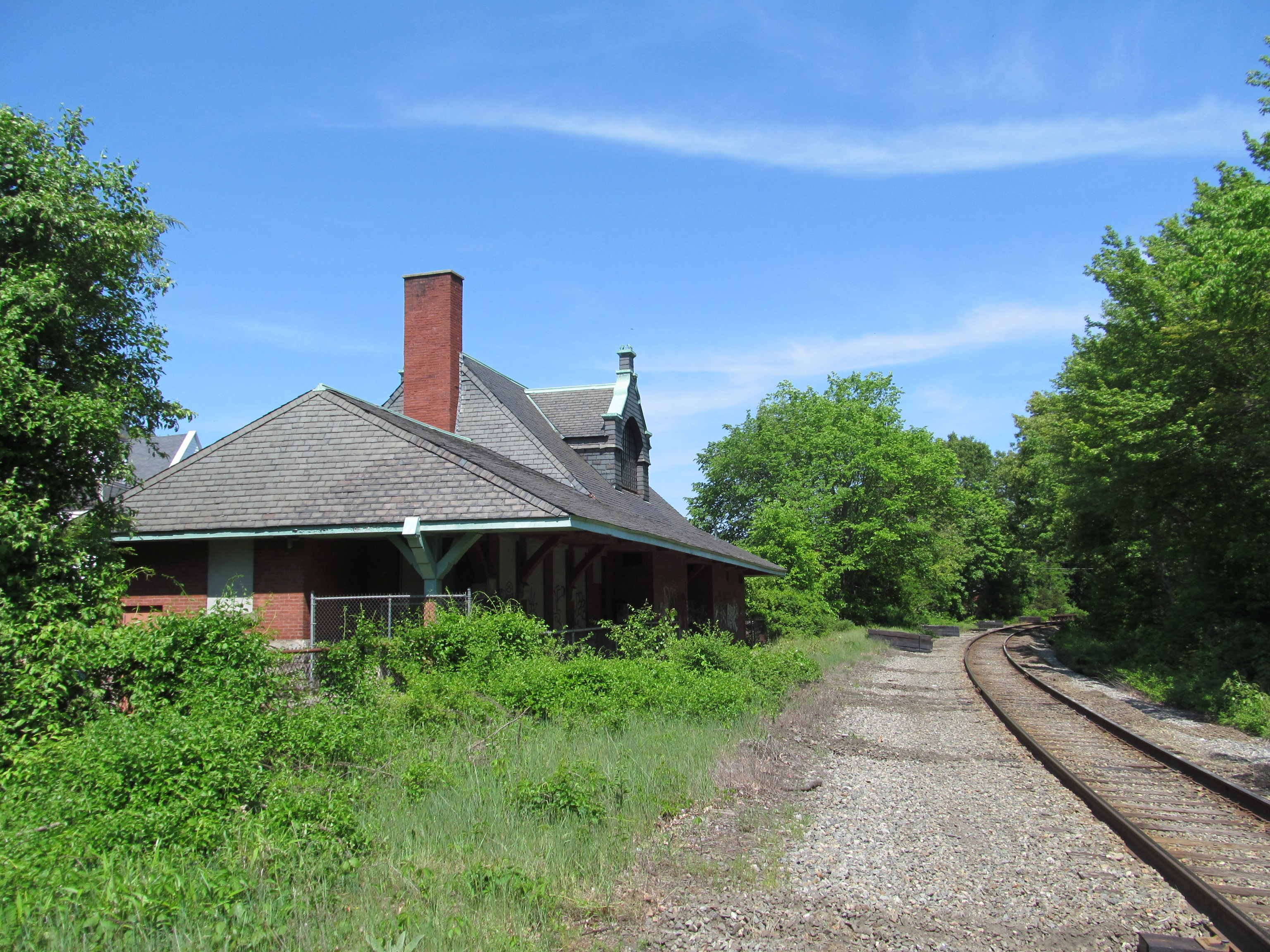 Uxbridge Passenger Depot, Uxbridge Massachusetts